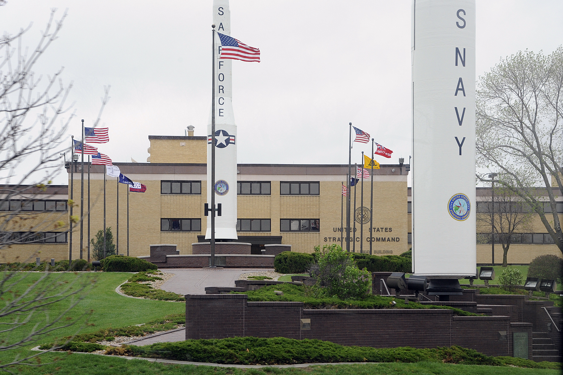 USSTRATCOM hq